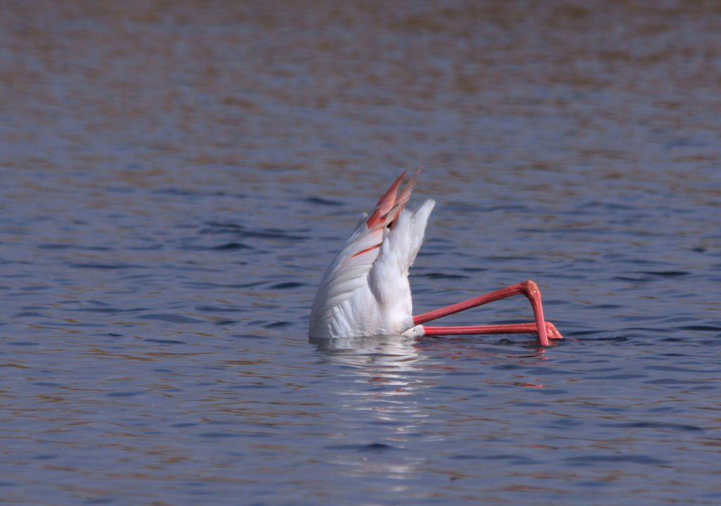 Greater Flamingo's butt, Phoenicopterus roseus at Rondebult Nature Reserve, Gauteng, South Africa - August